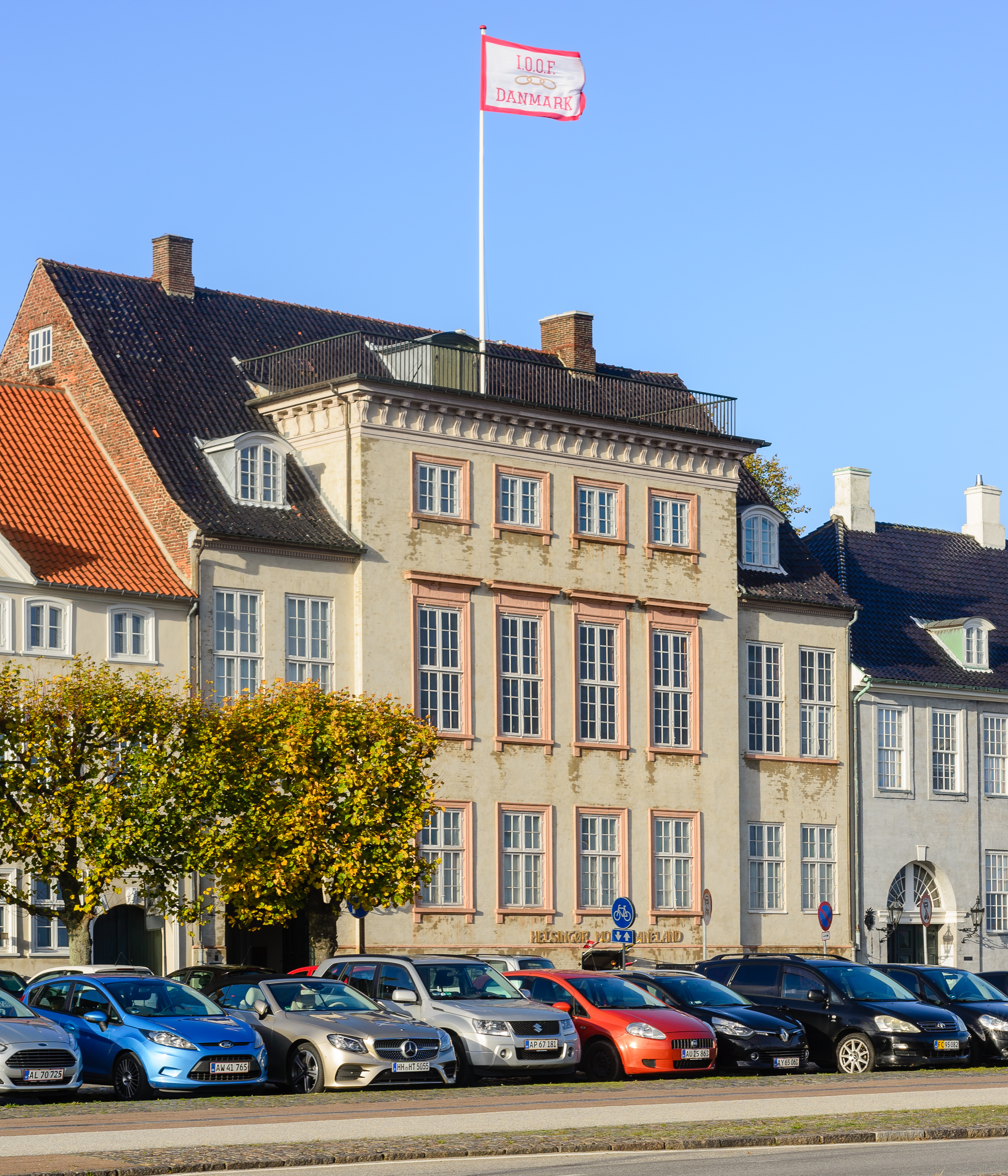 Classen Mansion in Helsingør, Denmark.